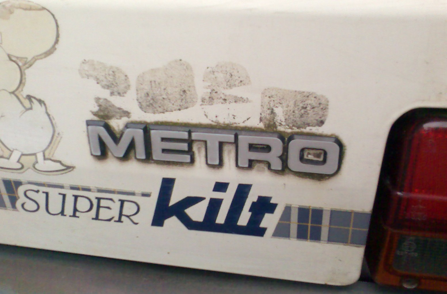 Austin Metro Super Kilt badge